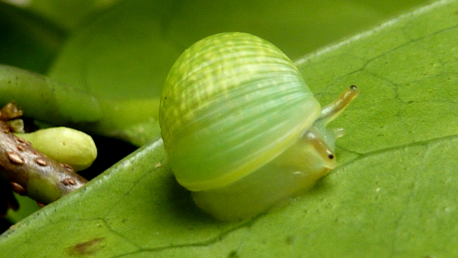 Photo of frontal view of Simpulopsis rufovirens.